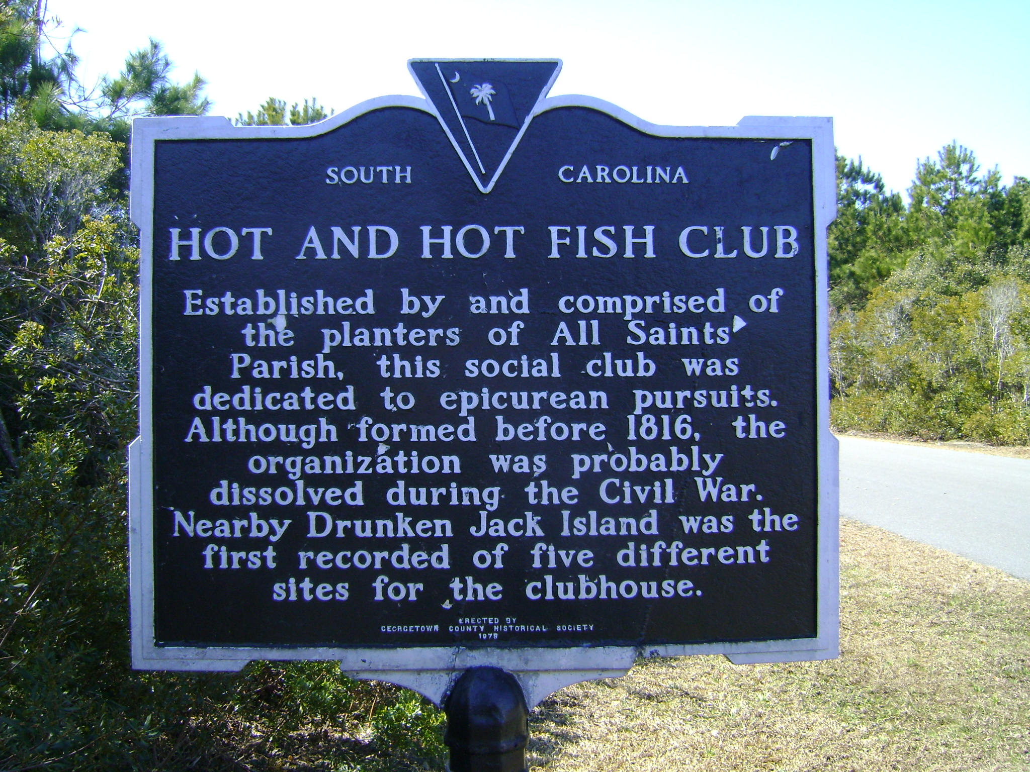 Hot Fish Club South Carolina state marker near Myrtle Beach area.